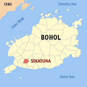 Map of Bohol showing the location of Sikatuna